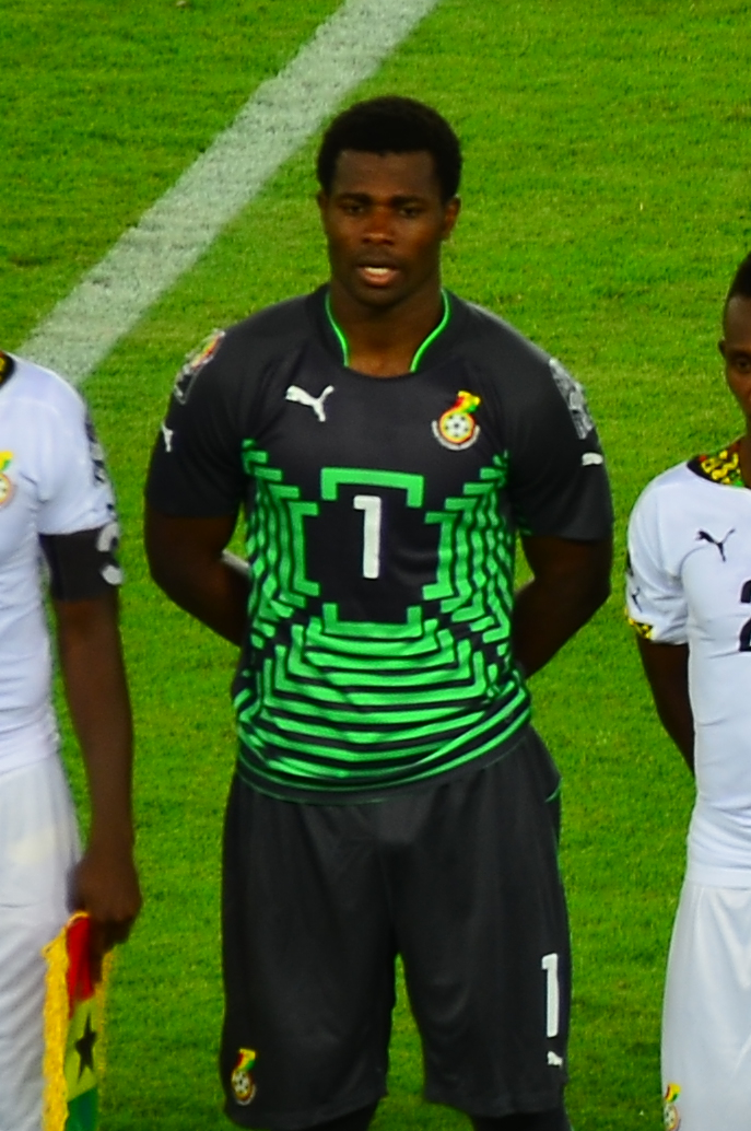 This is a picture of a soccer game (name of it is on file name).